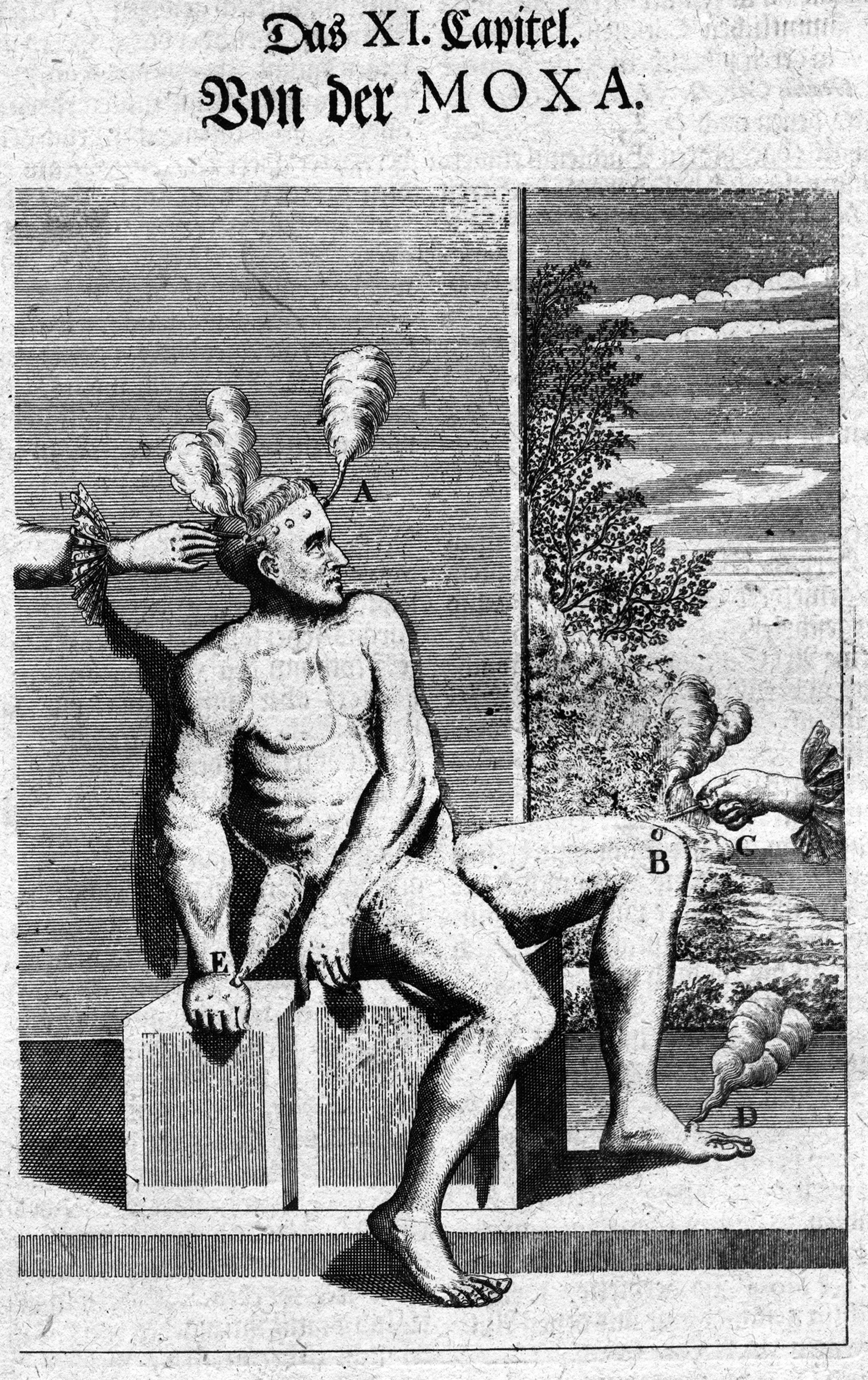 Treatment of Podagra and Chiagra using moxa. Illustration based on the explanations given by Hermann Buschoff in his book "Het podagra" (1674).